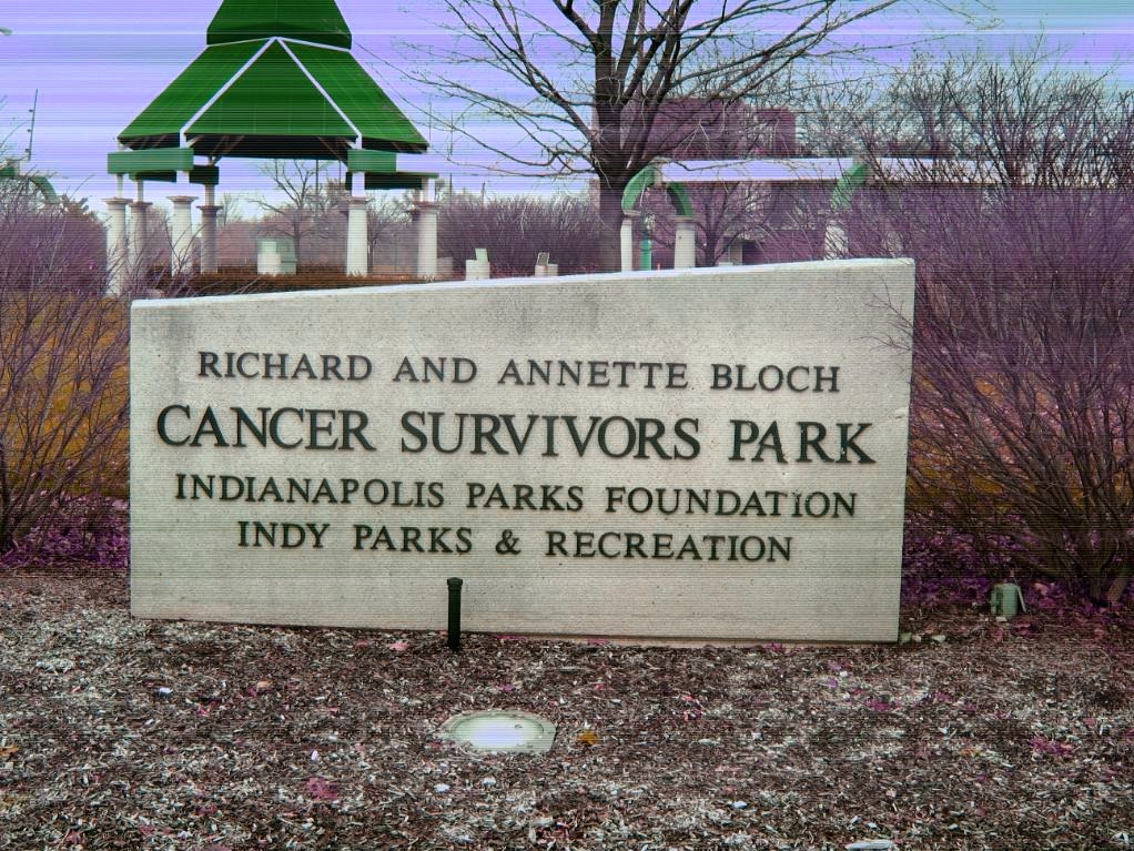 Cancer Survivors Park: Cancer... There's Hope Sculpture